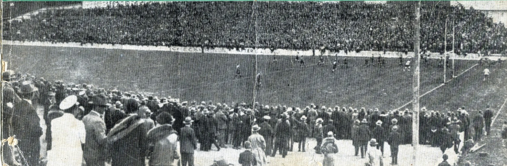 Marist Rugby League club playing South Sydney Carlaw Park 1929